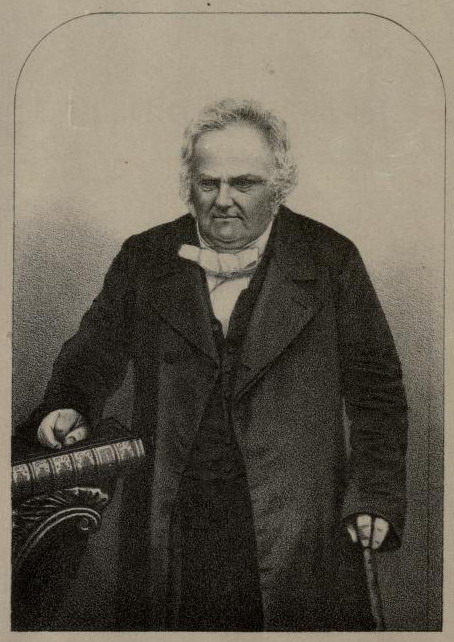 From Travels and adventures of the Rev. Joseph Wolff. London, 1861